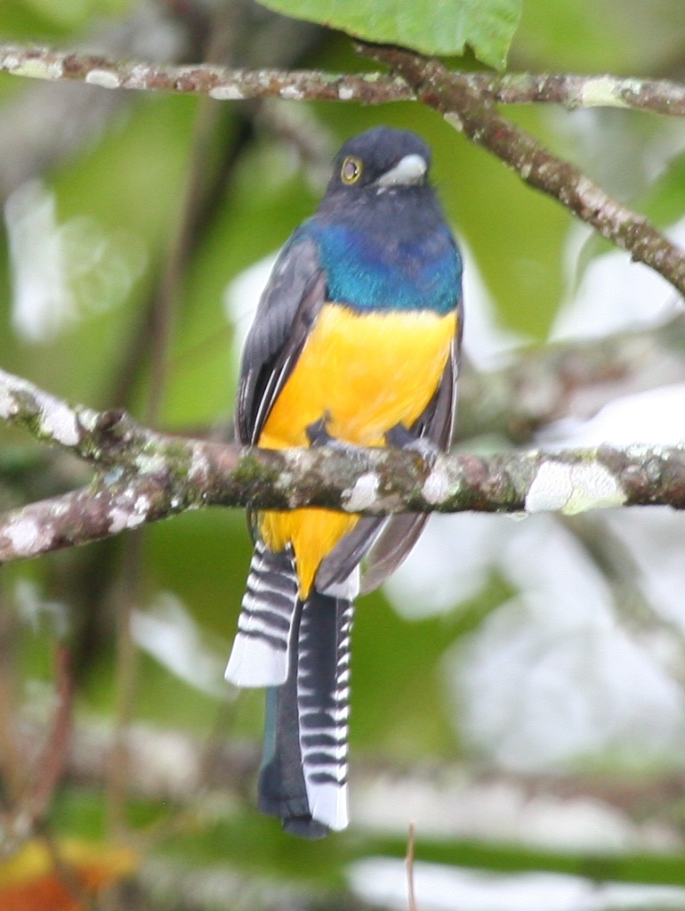 Gartered Trogon, Trogon caligatus, Honduras (originally misidentified as T. violaceous)